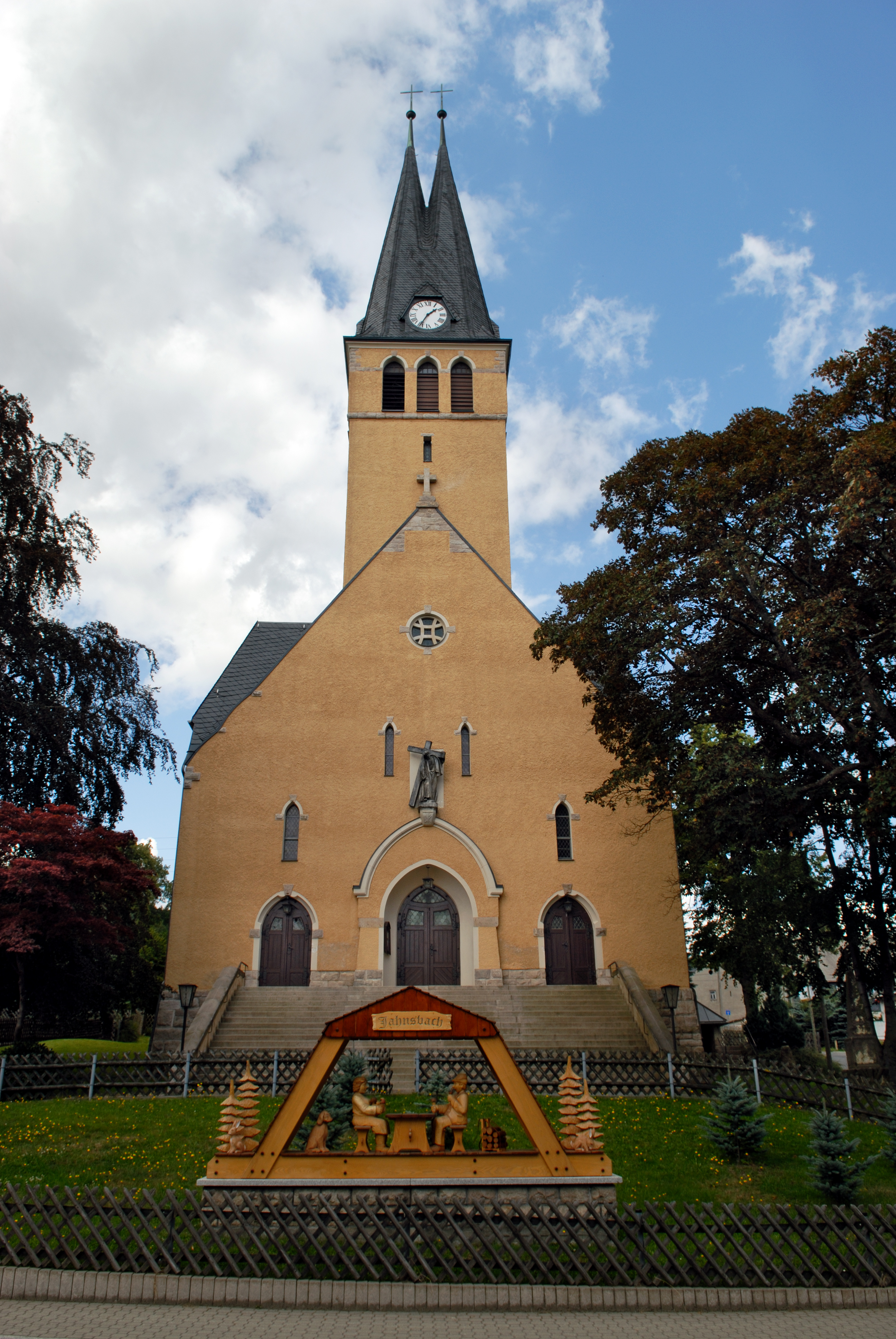 This image shows the church in Jahnsbach in the Ore Mountains.